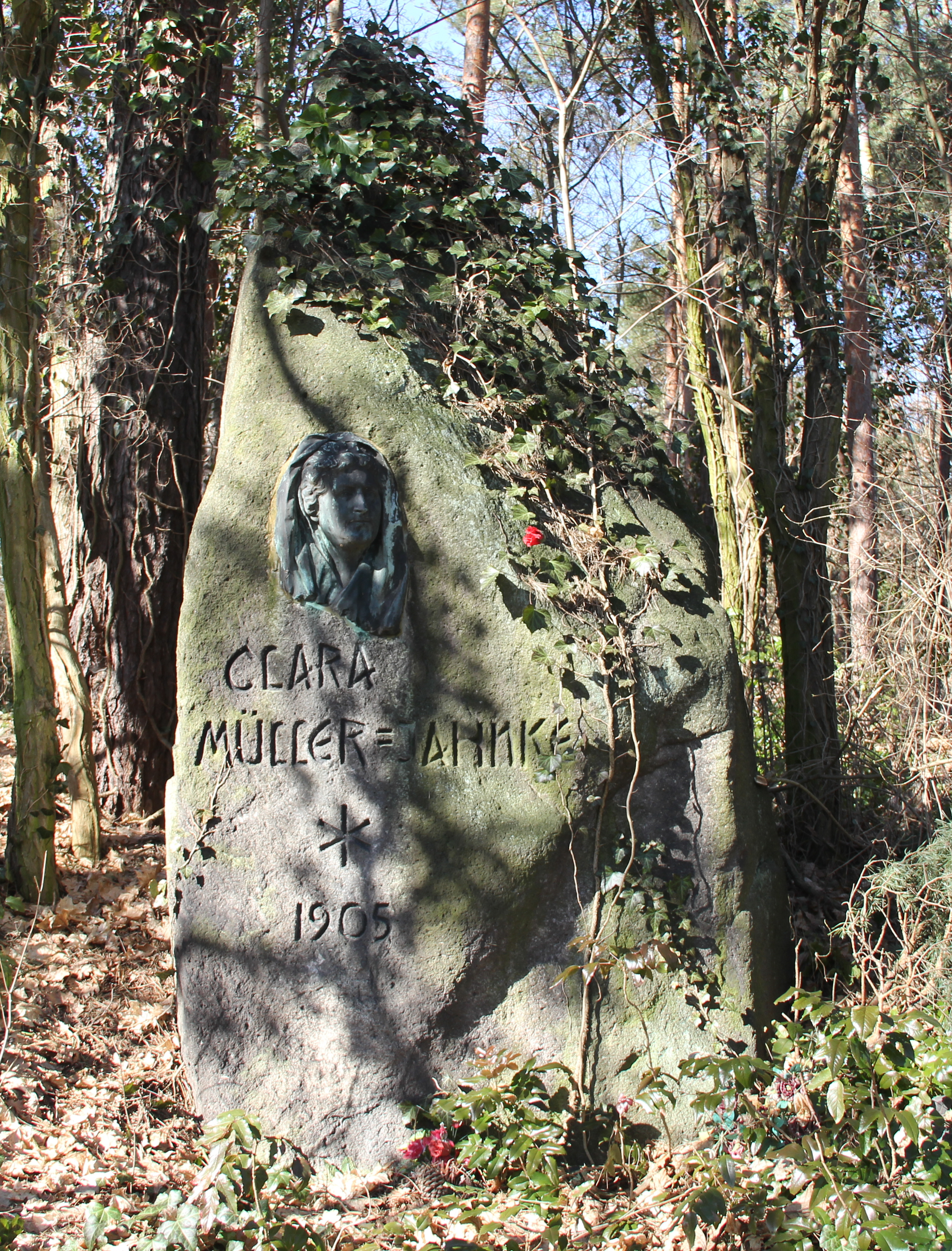 Graves, Clara Müller-Jahnke, Saarower Weg 51, Berlin-Wilhelmshagen, Germany Koordinate:52°26′17″N 13°42′40″E / 52.43806°N 13.71111°E